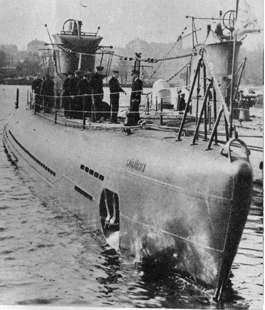 Swedish submarine "Sjöbjörnen" visit Stockholm 1939